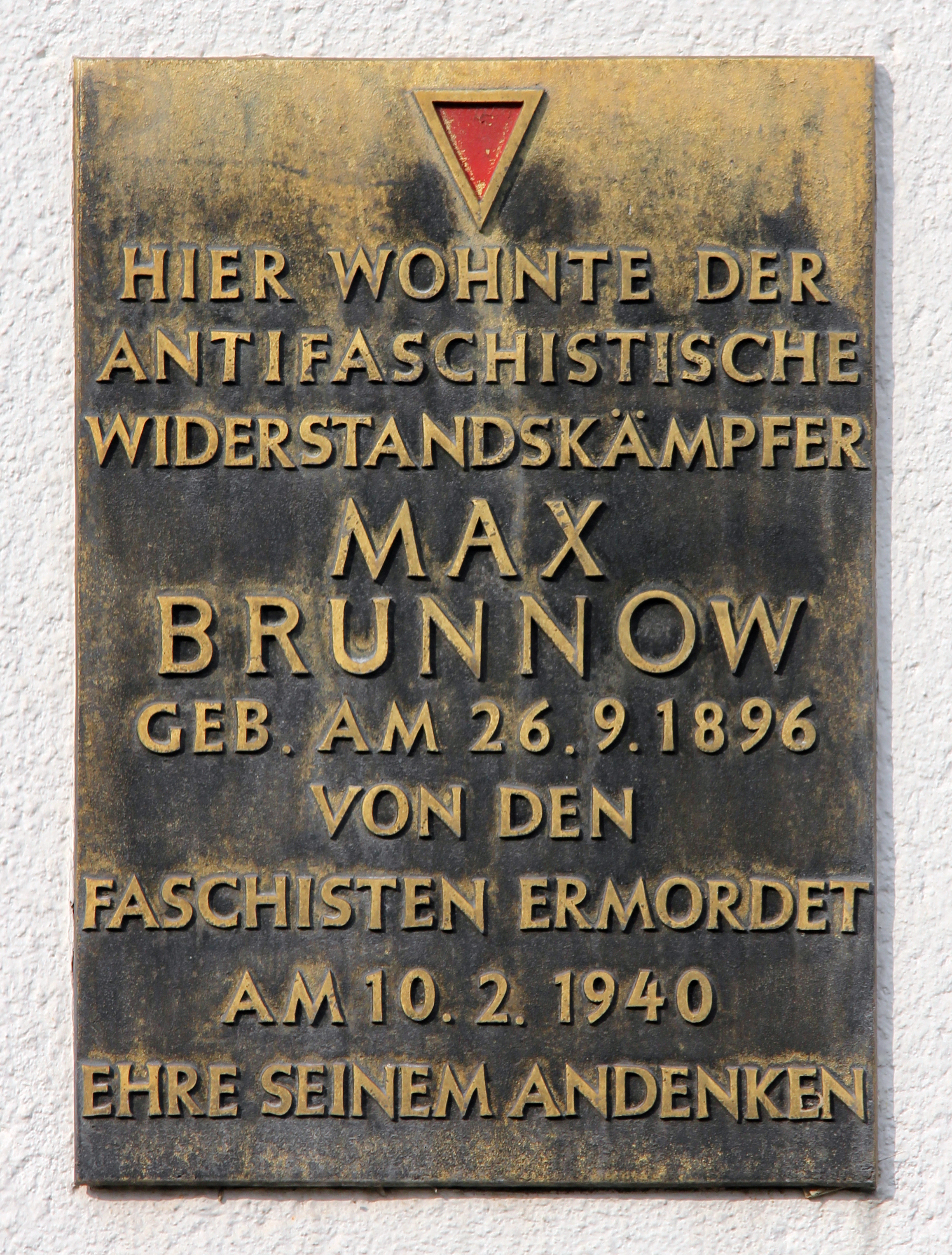 Memorial plaque, Max Brunnow, Alfred-Jung-Straße 5, Berlin-Lichtenberg, Germany